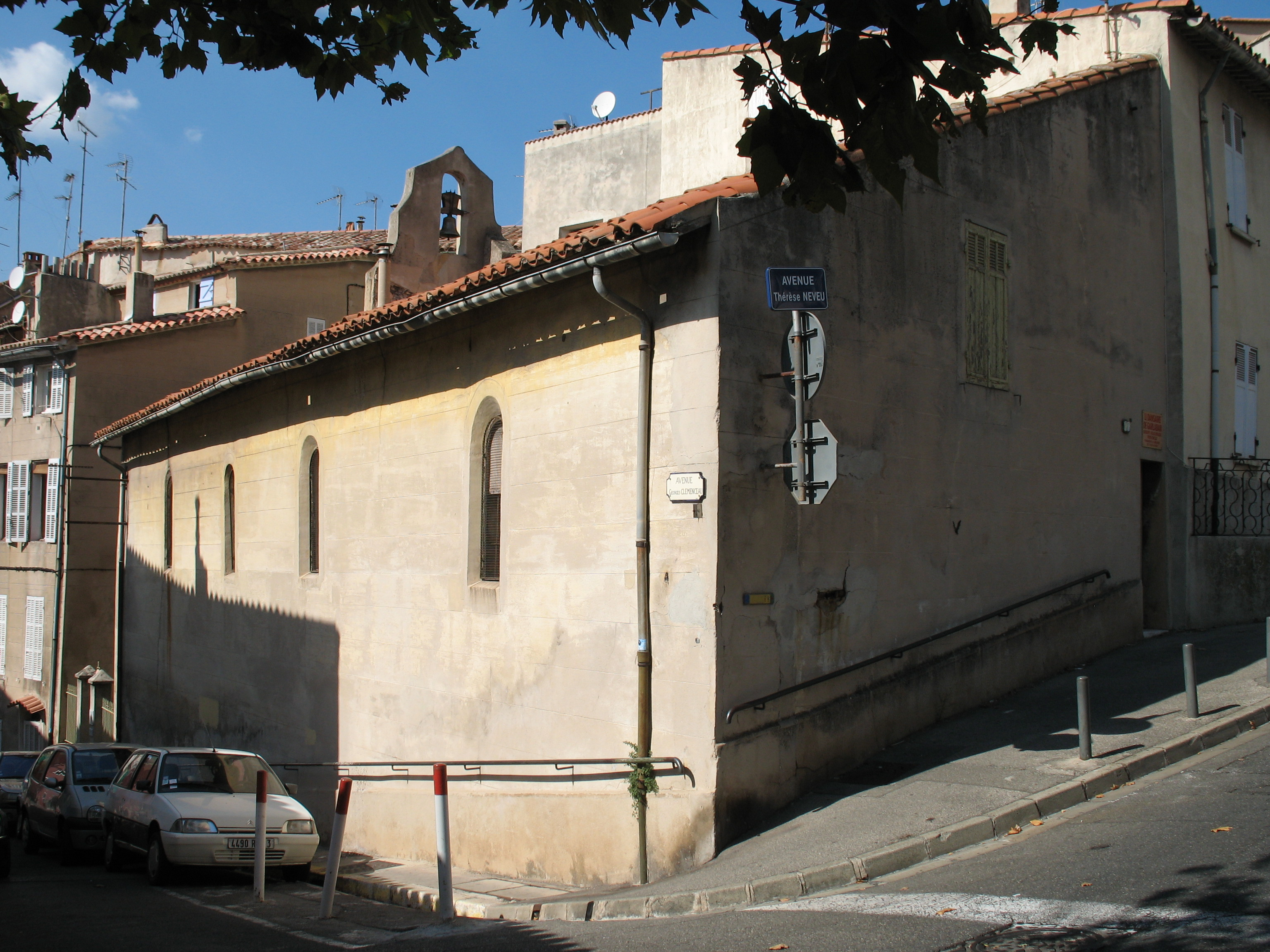 Chapel of Grey Penitents Aubagne (westward) .